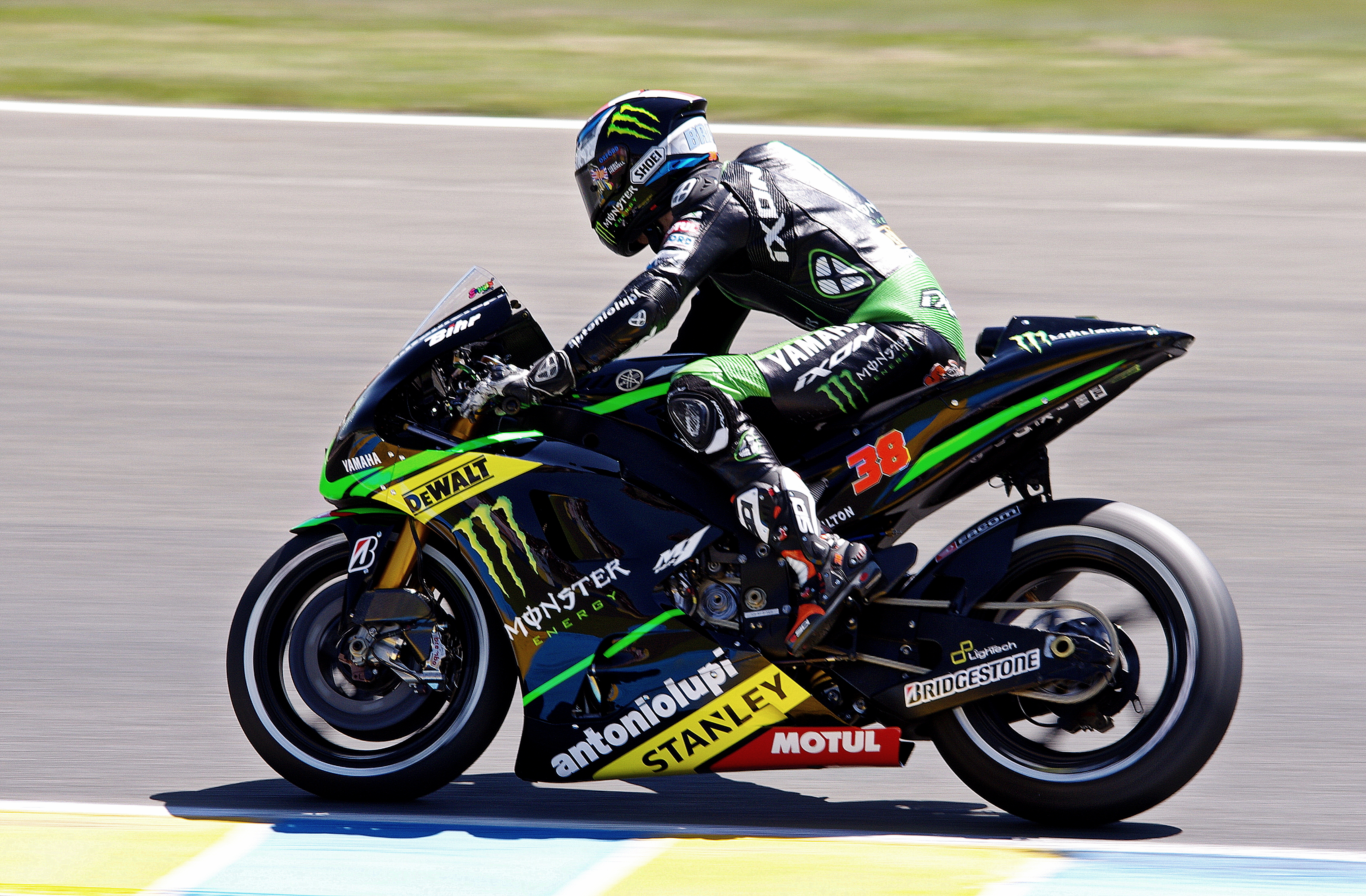 Bradley SMITH - Monster Yamaha Tech 3 - MotoGP 2014 - Le Mans